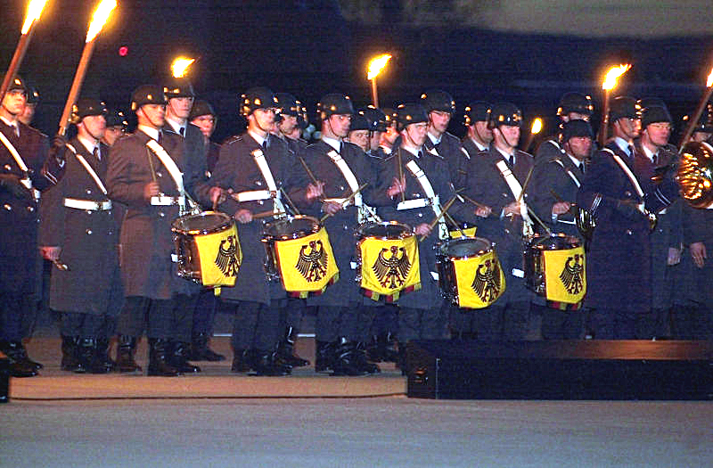 Members of the German Armed Forces Band perform during the "Grosser Zapfenstreich," a military tattoo held in recognition of the 50th Anniversary of Ramstein Air Base, Germany.